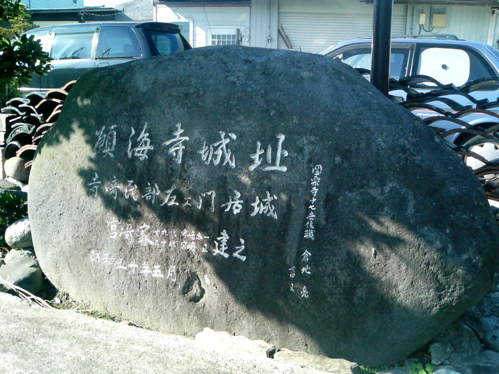 Gankaiji Castle(Toyama-Japan)